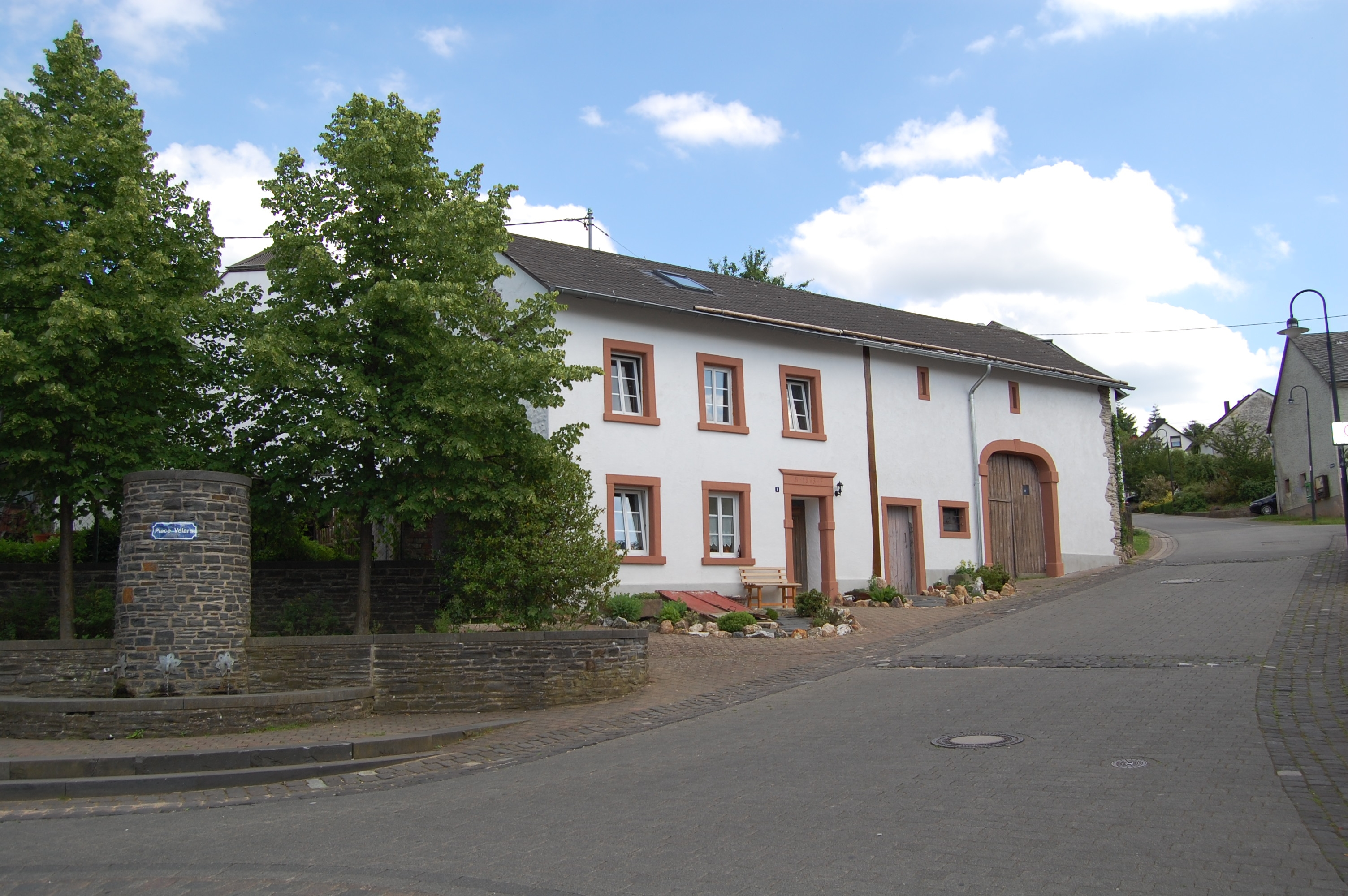 Village Osburg in the western Hunsrück landscape, Germany